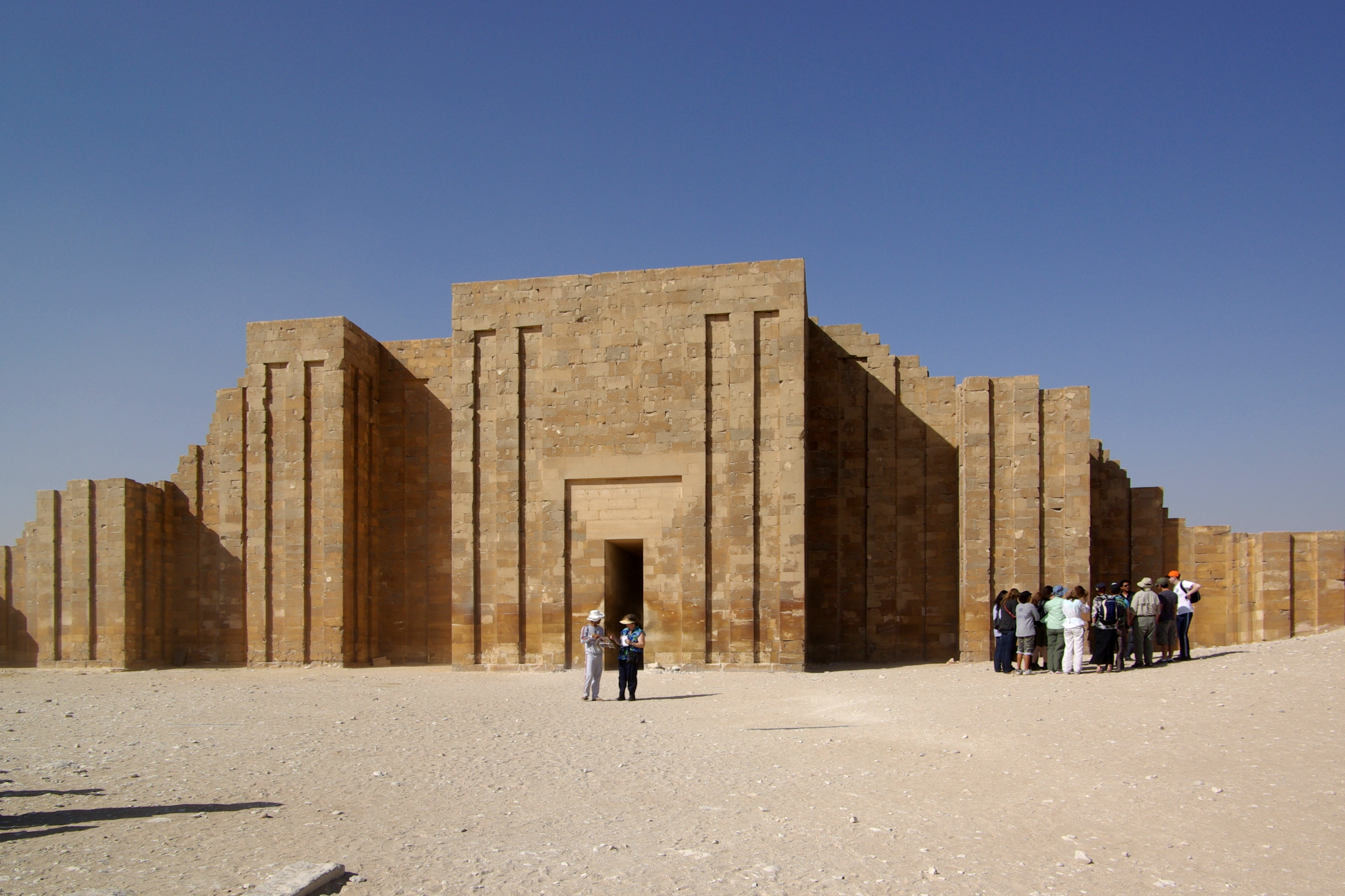 Saqqara, entrace to the funerary complex of Djoser